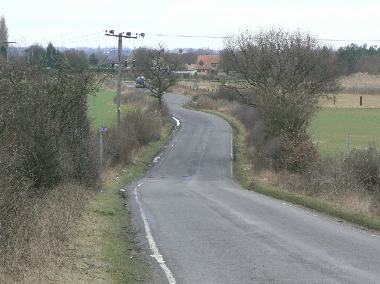 Shaftholme Lane Looking towards the hamlet of Shaftholme from the old railway bridge. The Transpennine Trail goes off to the right at the bottom of the slope where the signpost is.